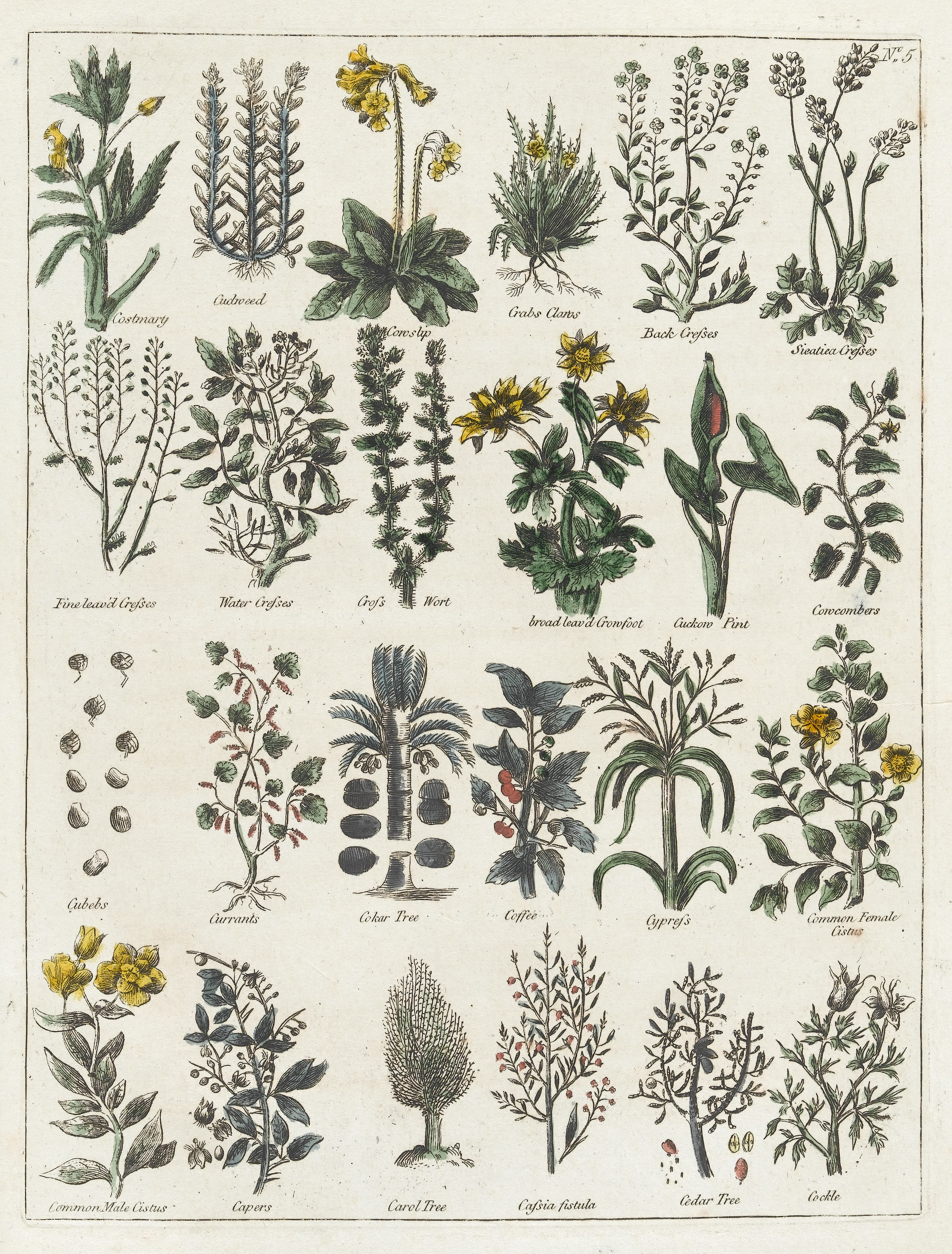 A selection of herbal plants. Rare Books Keywords: Nicholas Culpeper; Herbal remedies; Herbals